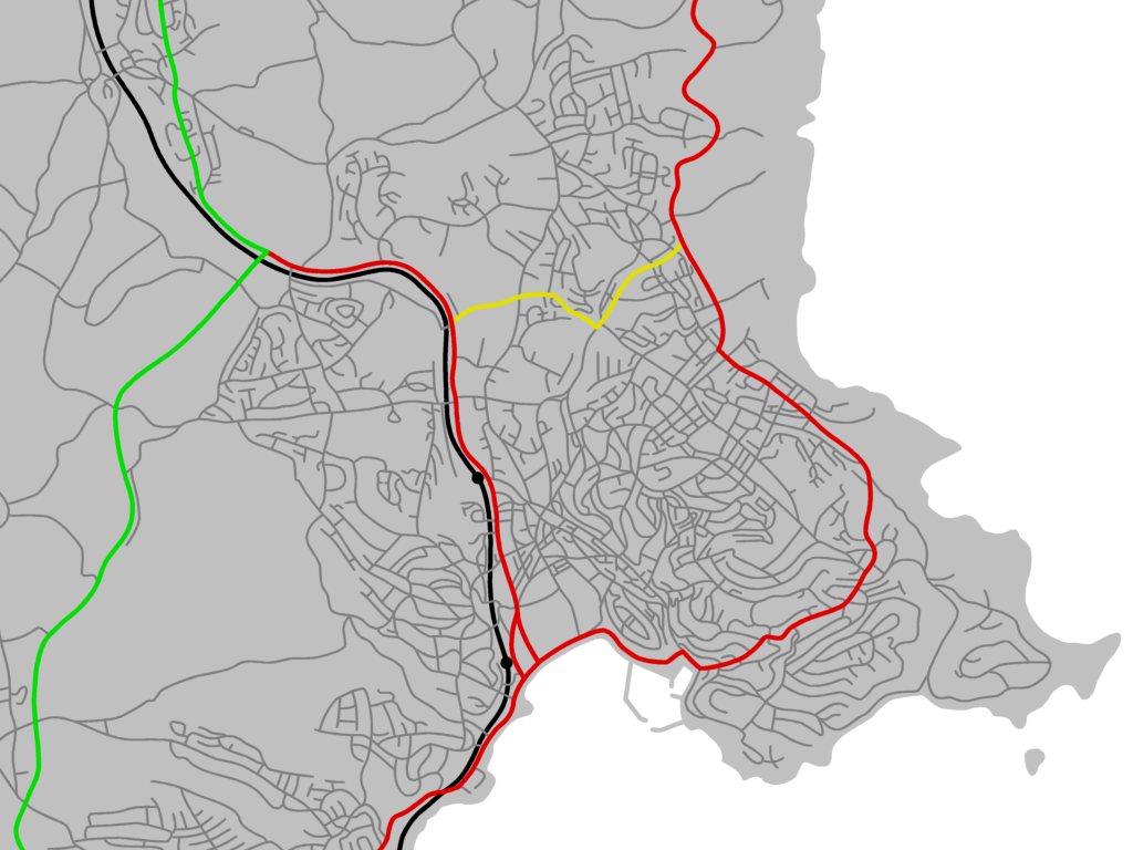 A map of Torquay. Specifically: Torquay, including Barton, Watcombe, The Willows, Combe Pafford, Edginswell, Hele, St Marychurch, Shiphay, Torre, Upton, Plainmoor, Ellacombe, Babbacombe, Chelston, Wellswood, and Livermead Daccombe North Whilborough Cockington Parts of Kingskerswell, Maidencombe, Compton, Marldon, and Paignton (Hollicombe, and parts of Shorton and Preston)